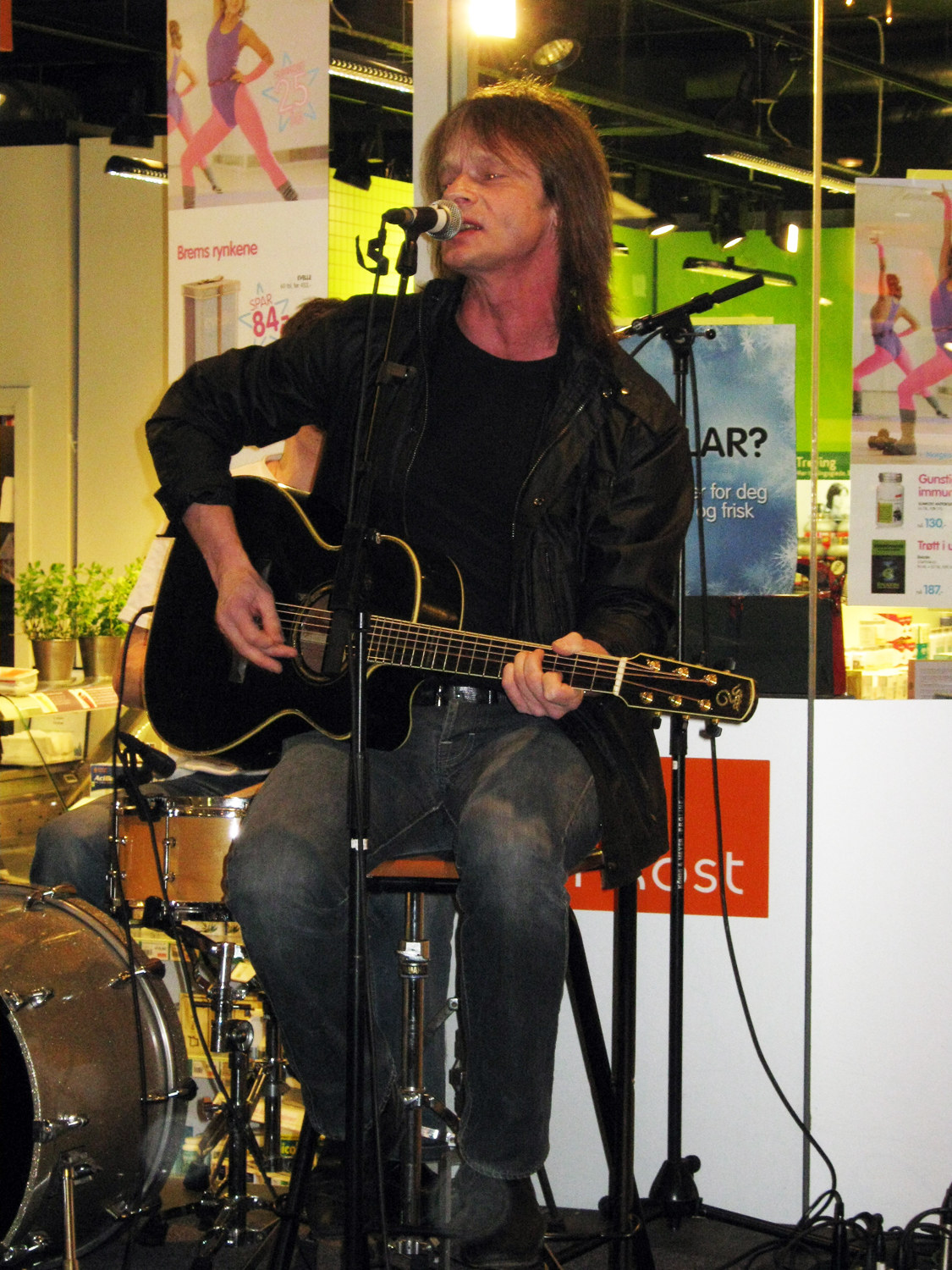 Torstein Flakne, lead singer in Stage Dolls. Picture taken at Amfi Arena i Arendal